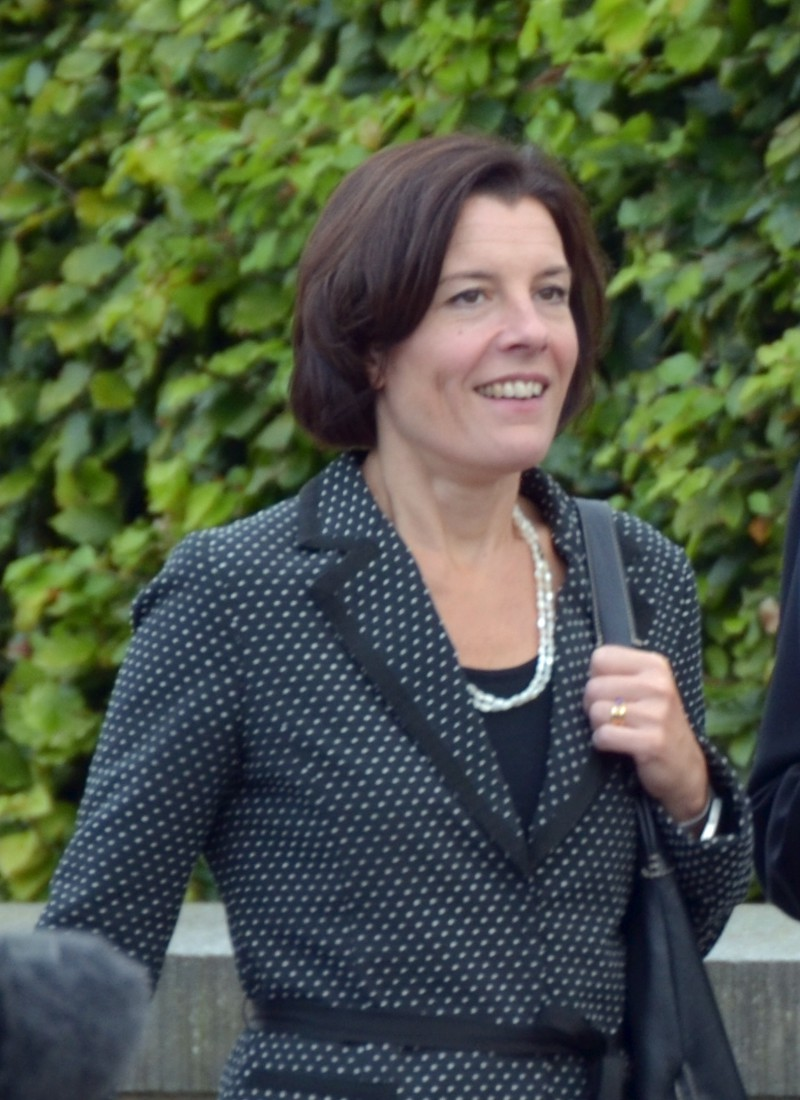 Karin Enström, Swedens minister for defence.